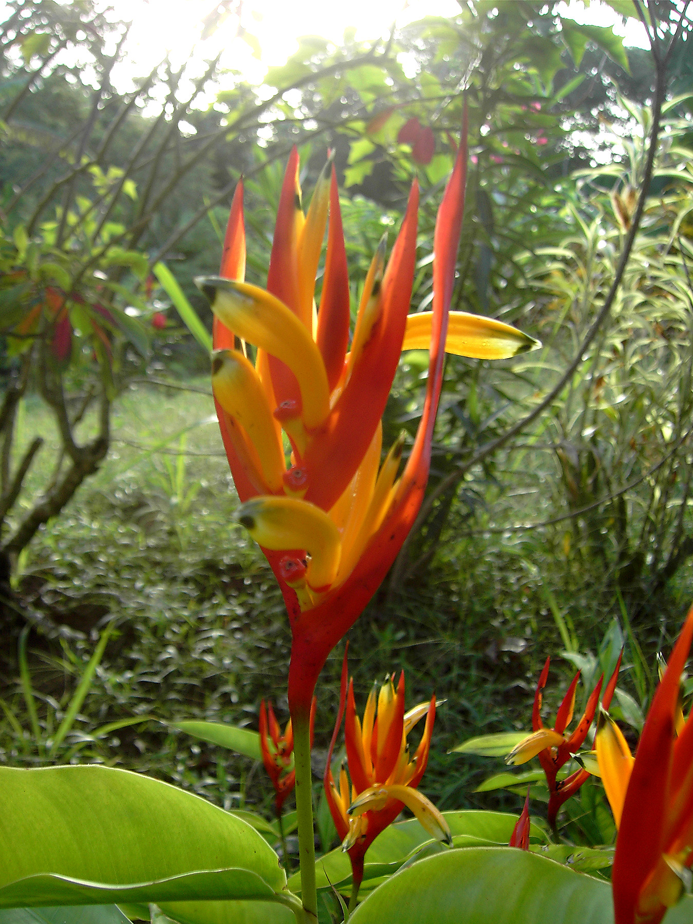 near Palm Tree House, Woodfordhill, Dominica, W.I.